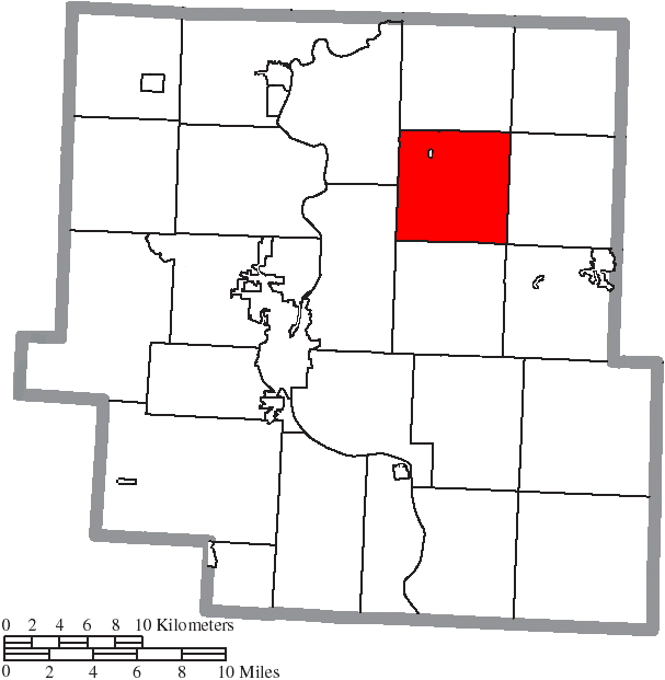 Map of the municipal and township boundaries of Muskingum County, Ohio, United States, as of the 2000 census, with the location of Salem Township highlighted. Township borders are shown only in unincorporated areas in order to differentiate incorporated and unincorporated areas more clearly.